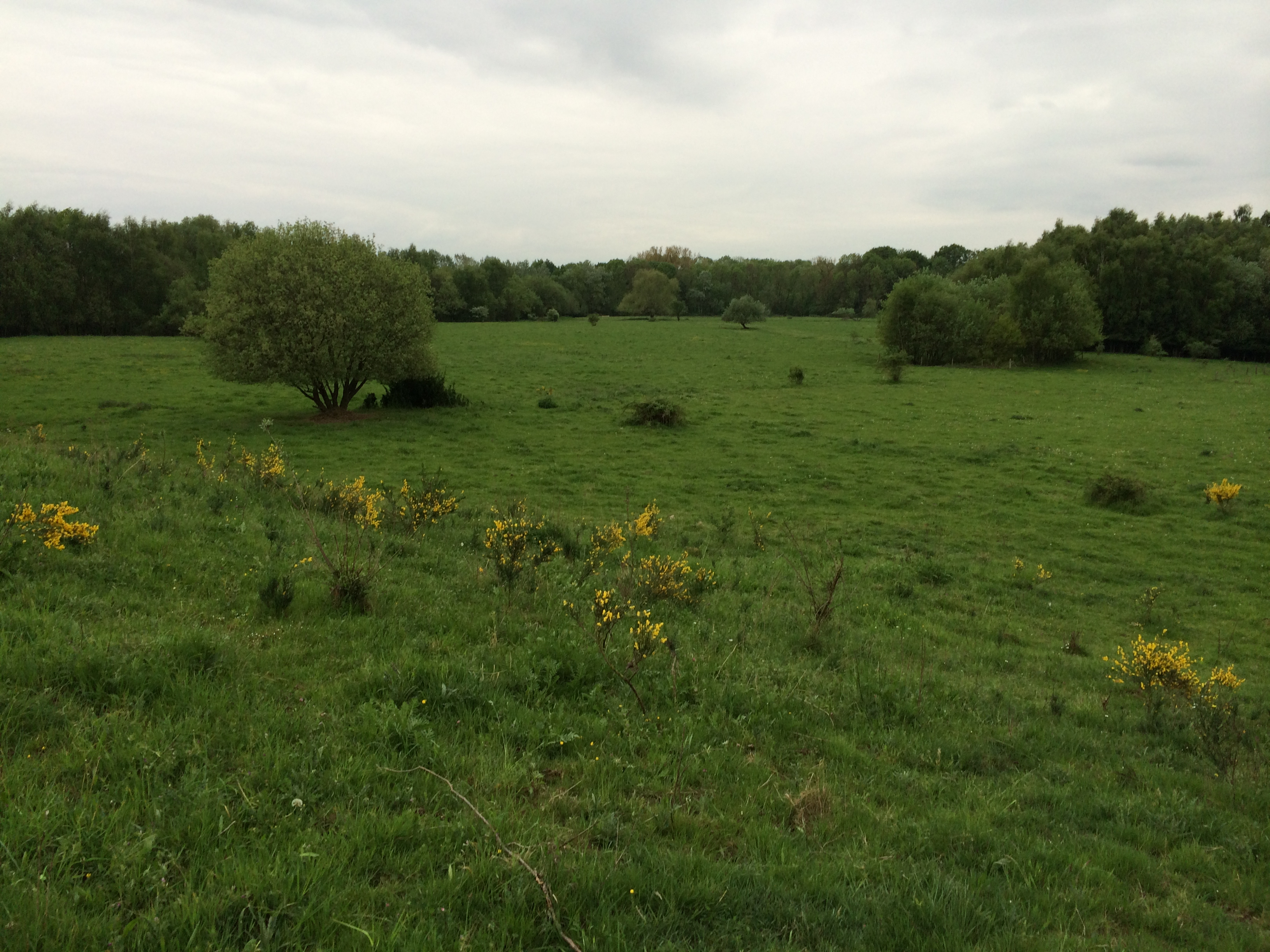 Groeve Sweijer. A natural reserve in Simpelveld, Netherlands.